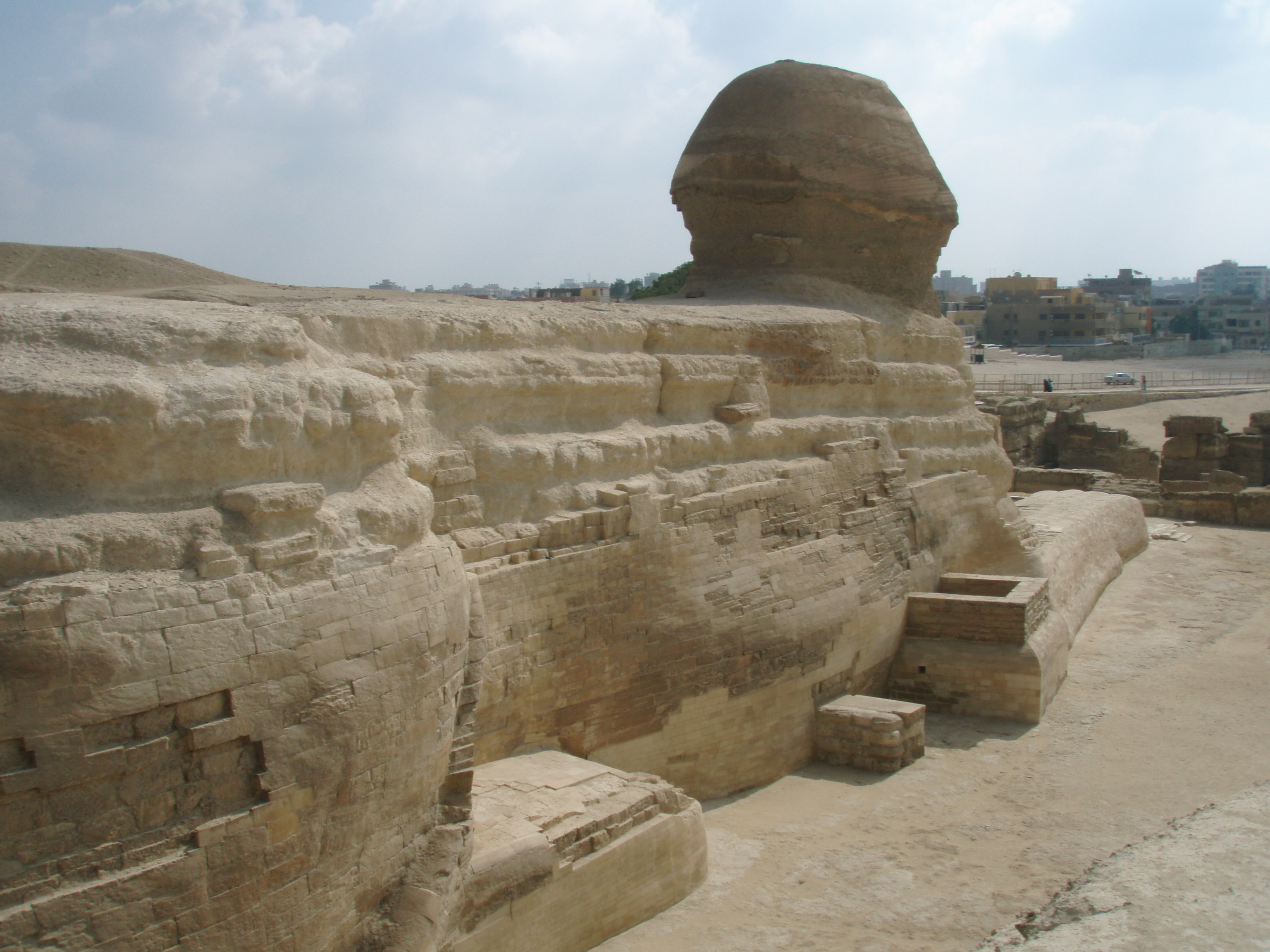 Back of Sphinx, Giza Egypt